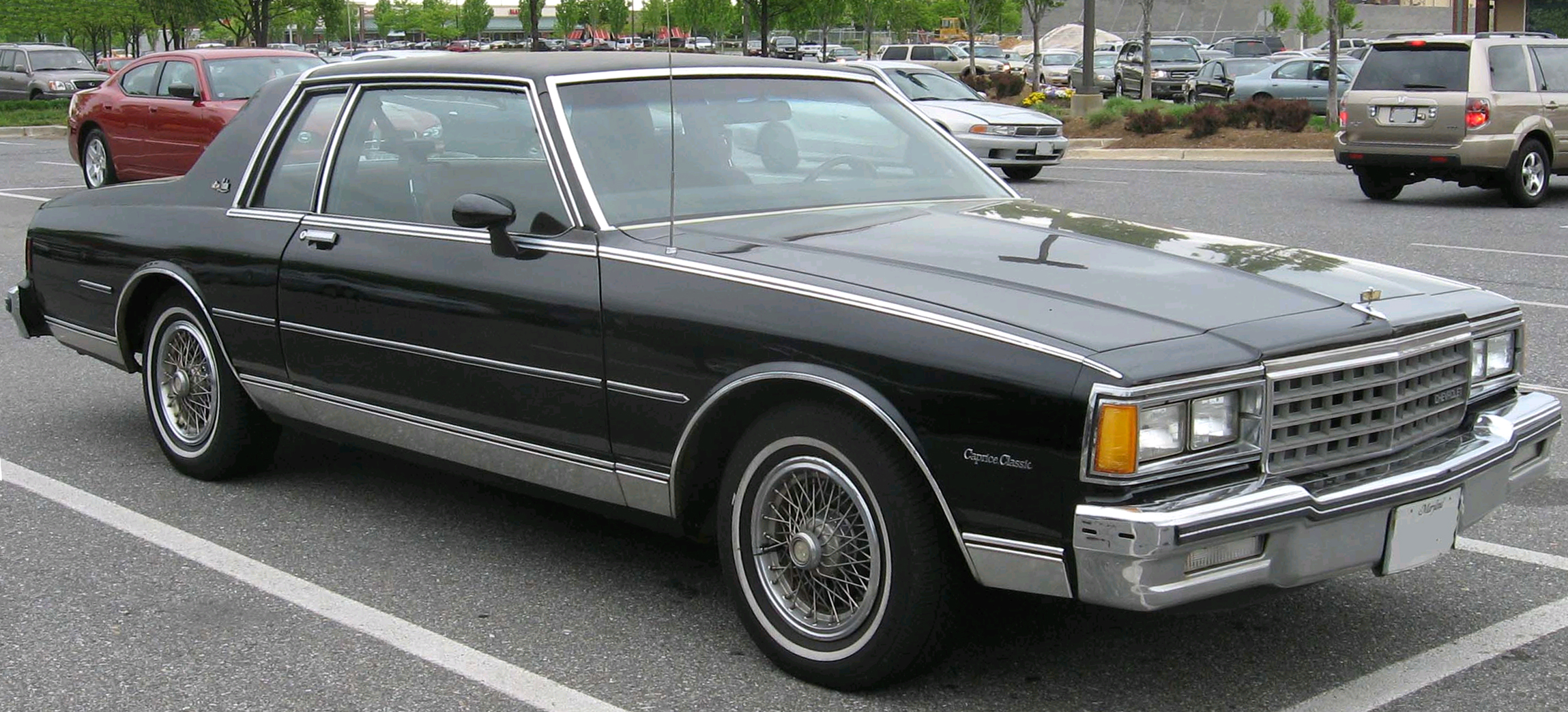 Chevrolet Caprice photographed in USA.